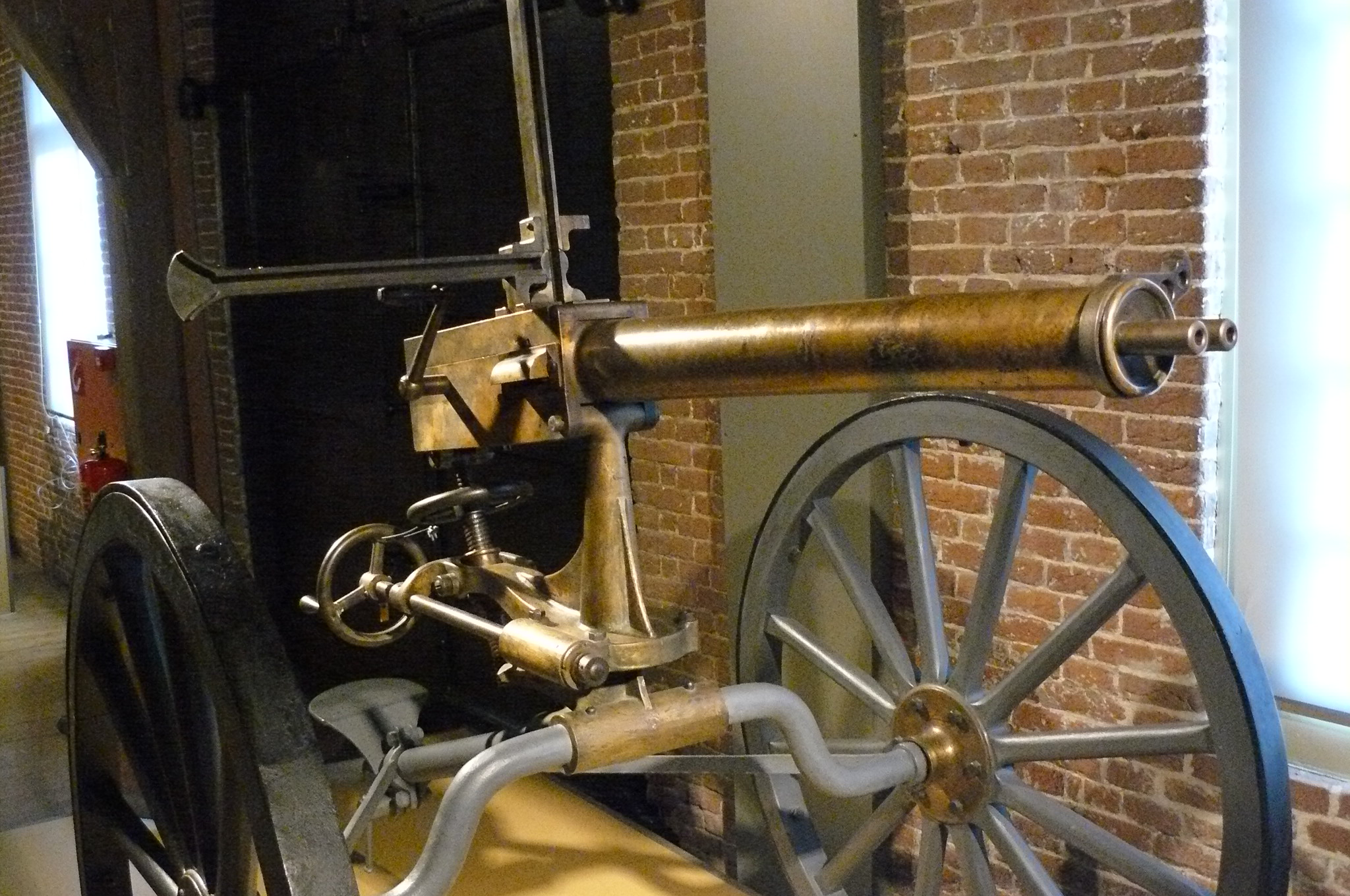 M.90 Gardner machinegun. Seen at Army museum in Delft (Netherlands)